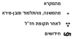 A legend for the Ben-Yehuda dictionary.